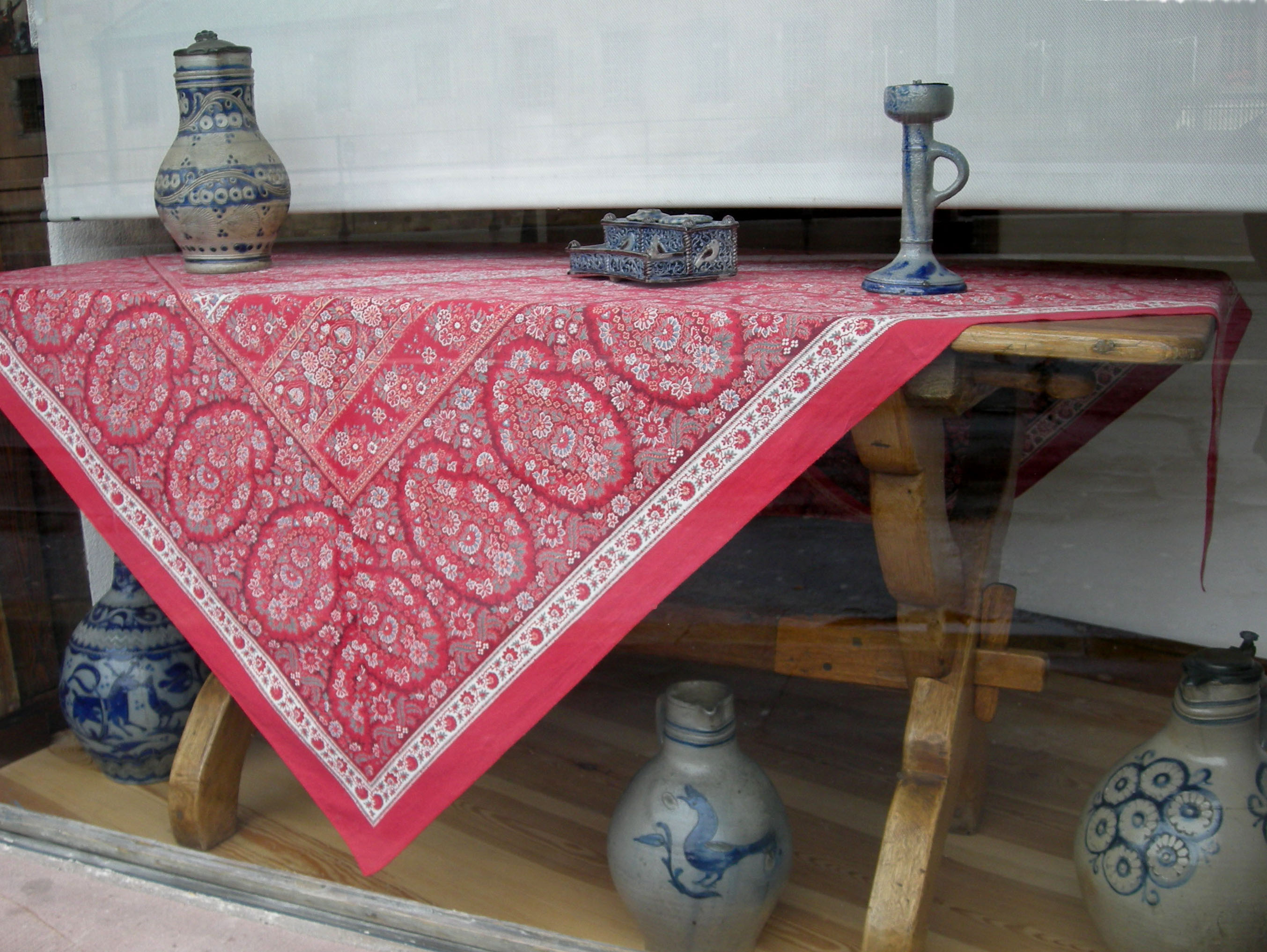 Exhibition at Musée alsacien (Strasbourg)